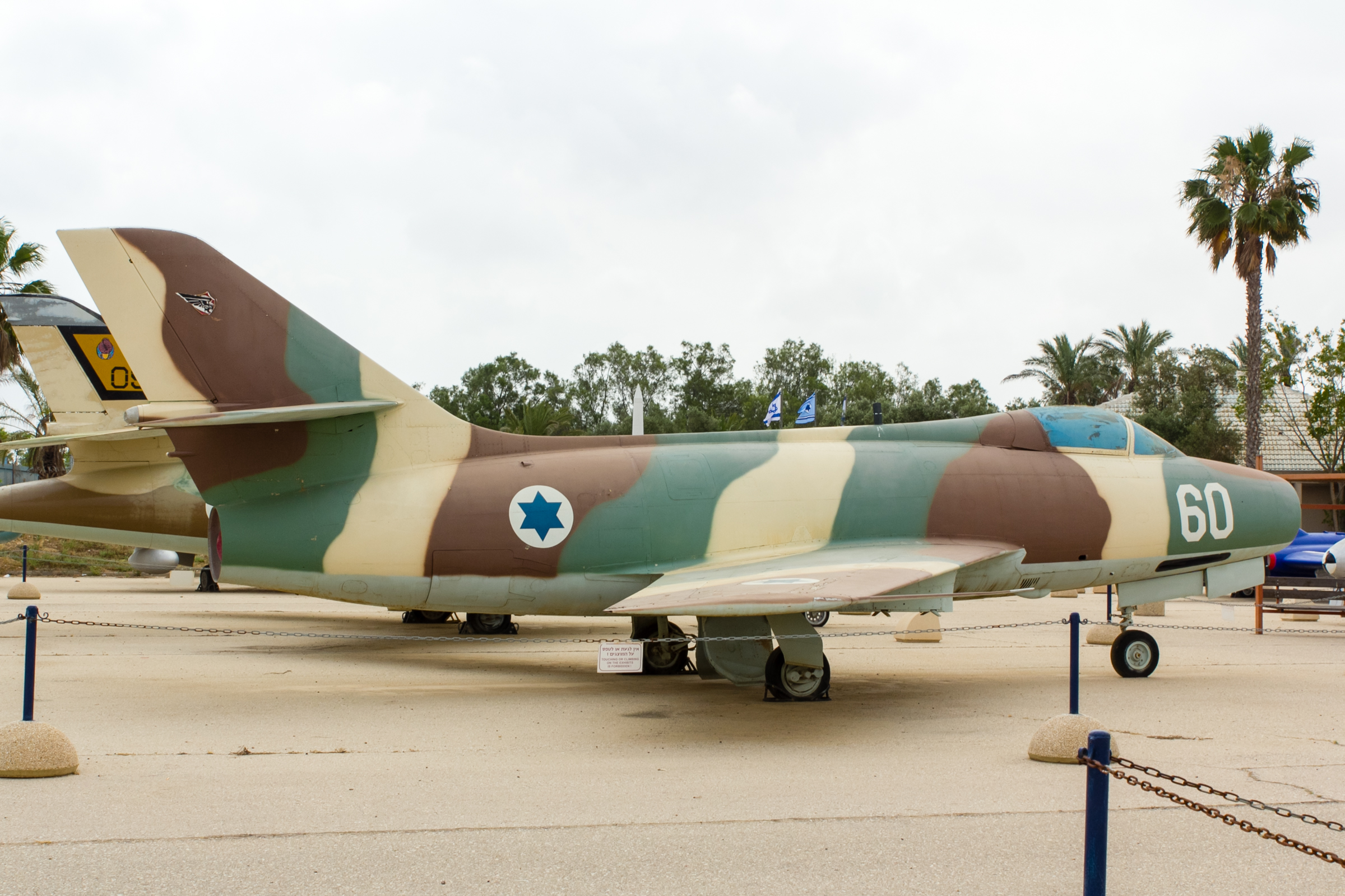 Dassault Mystere at the Israeli Air Force Museum in Hatzerim